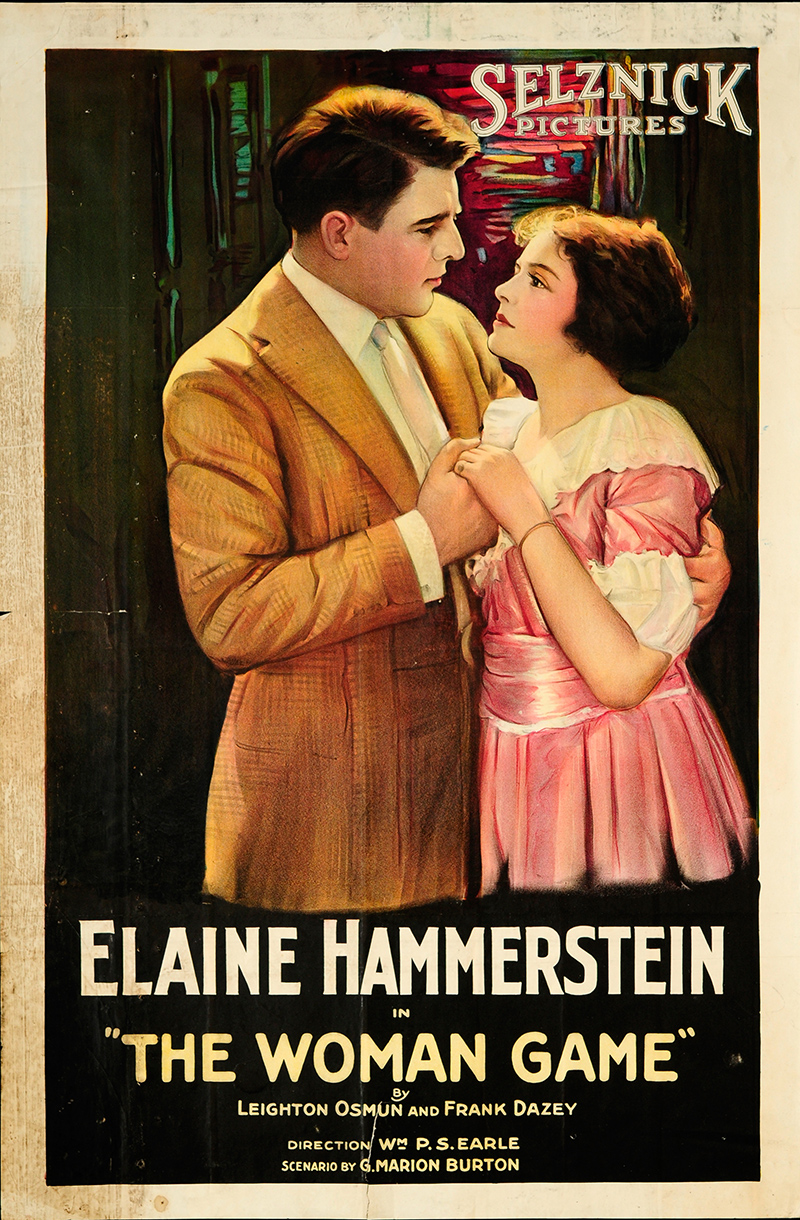 This is a poster for the American film The Woman Game (1920).